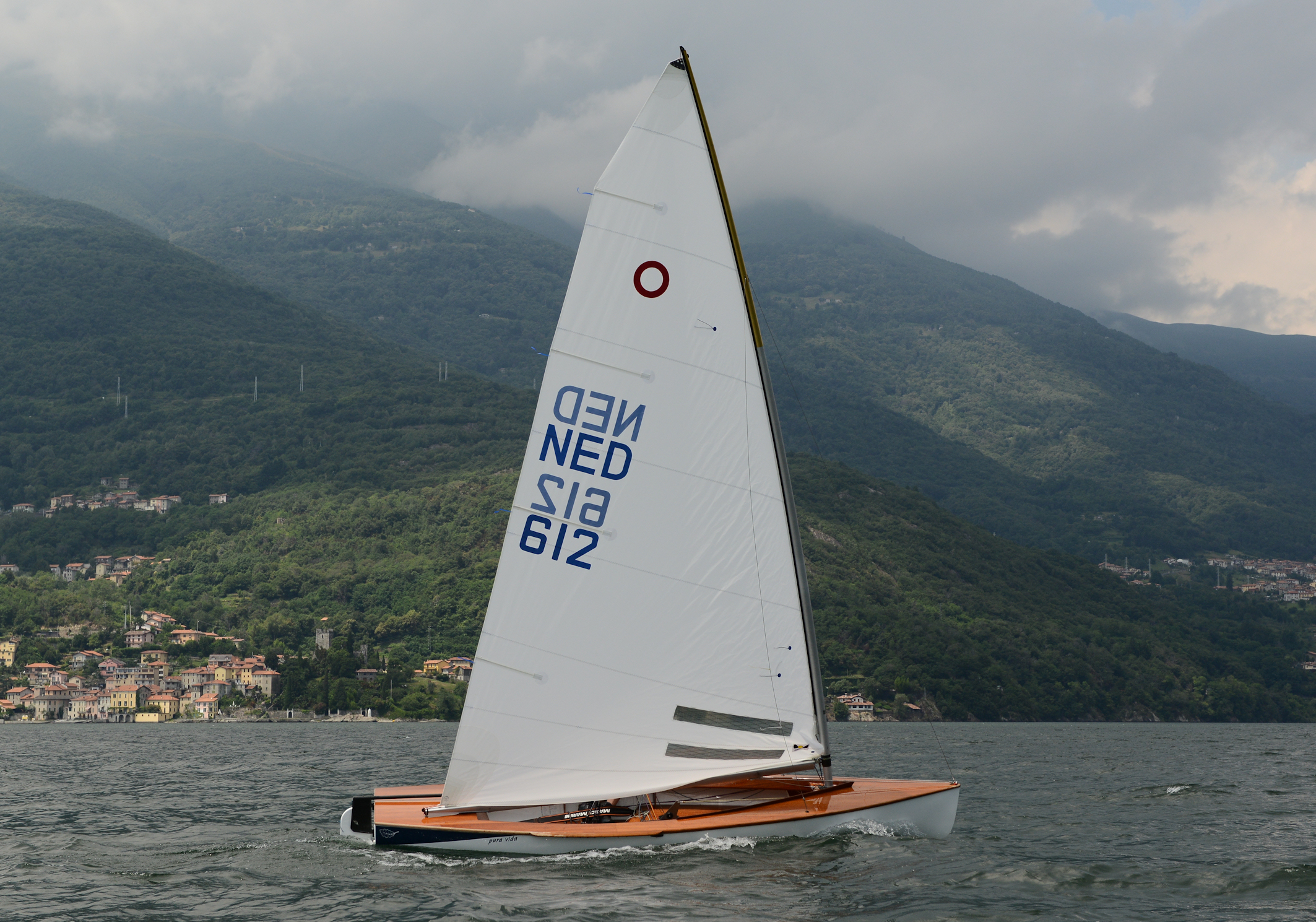 NED 612 at Lake Como